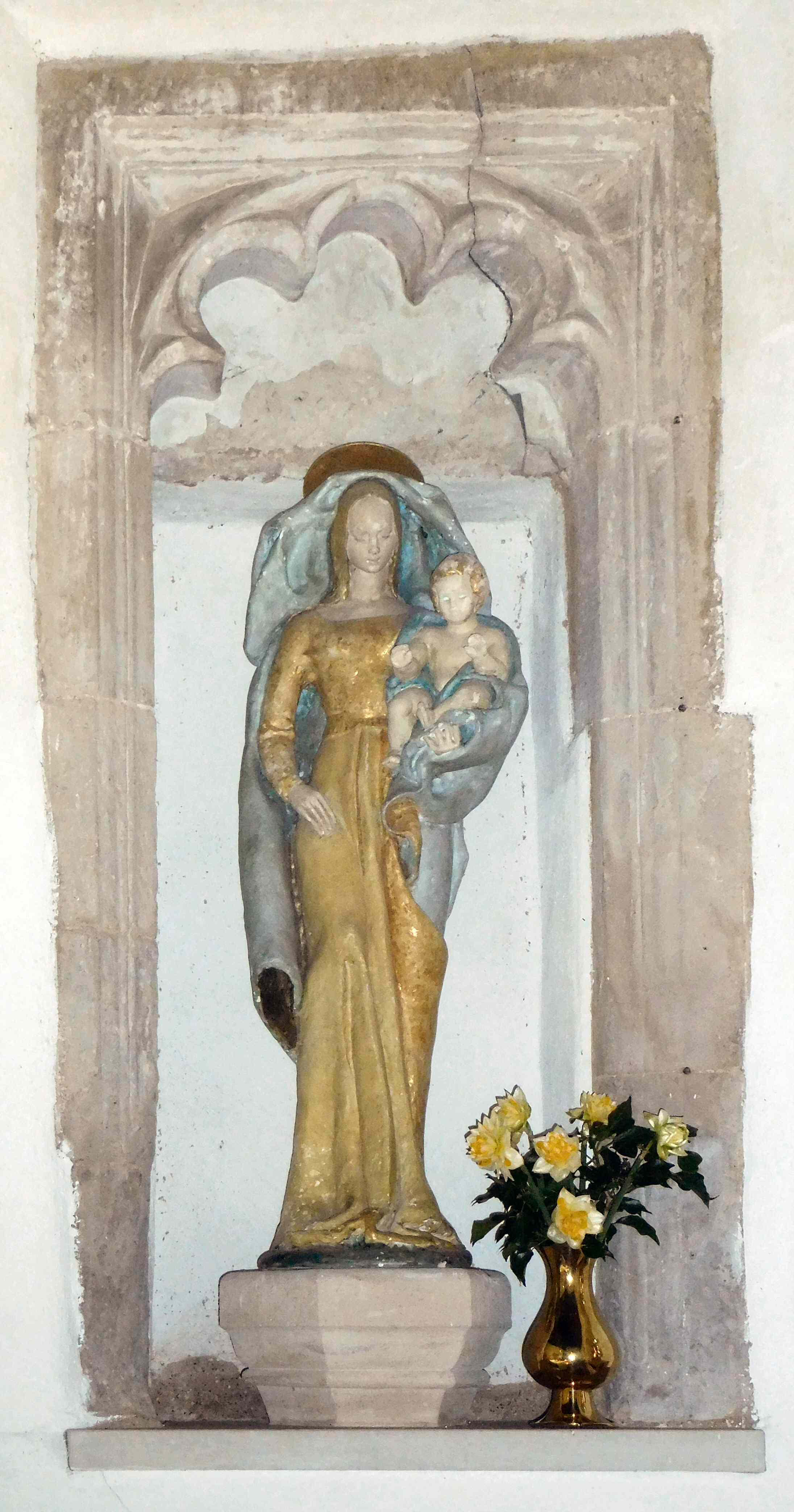 Statue of Madonna and Child in niche behind altar at the church of St Mary the Virgin, Kensworth